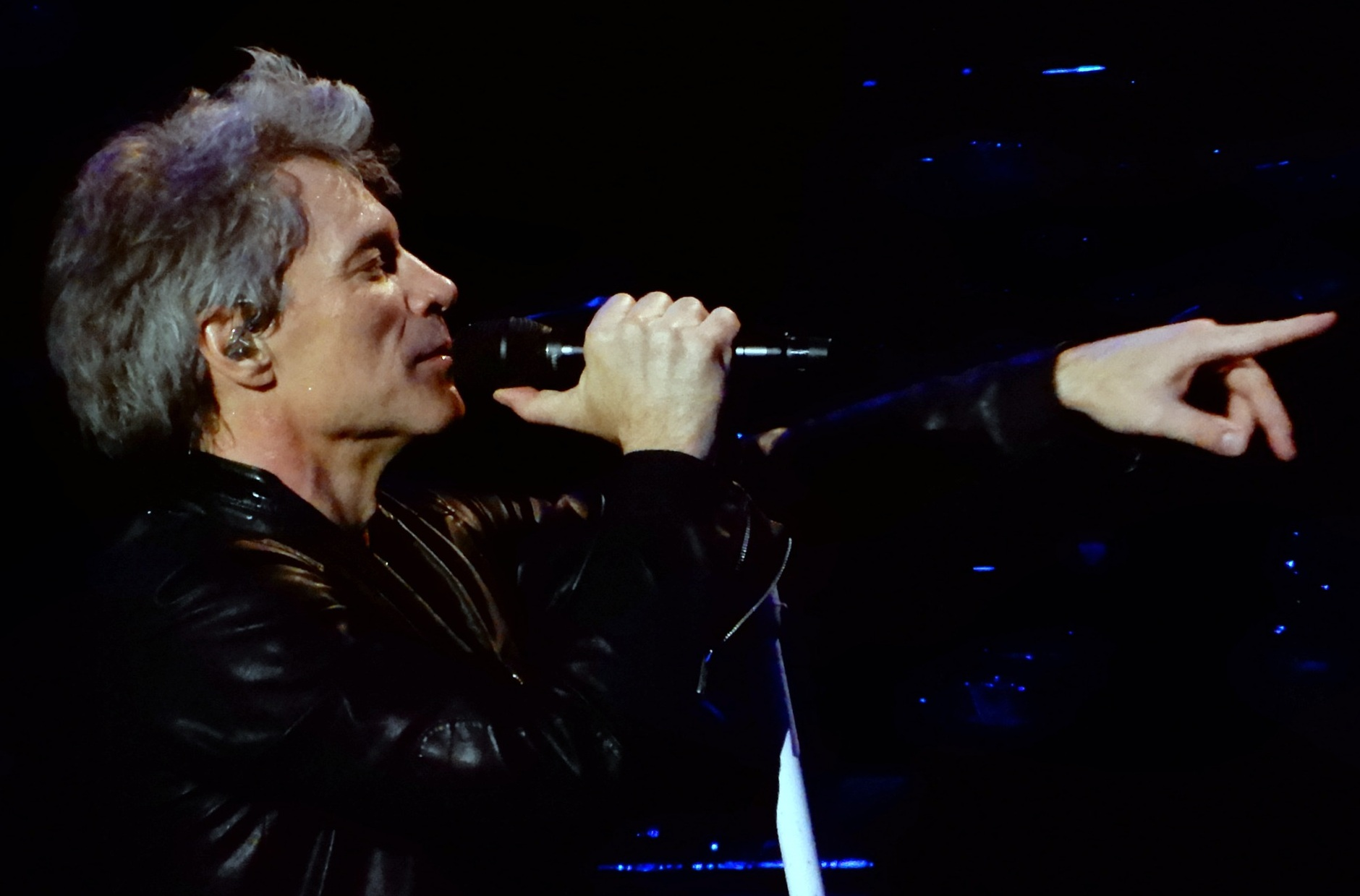 Jon Bon Jovi at Madison Square Garden (2017).